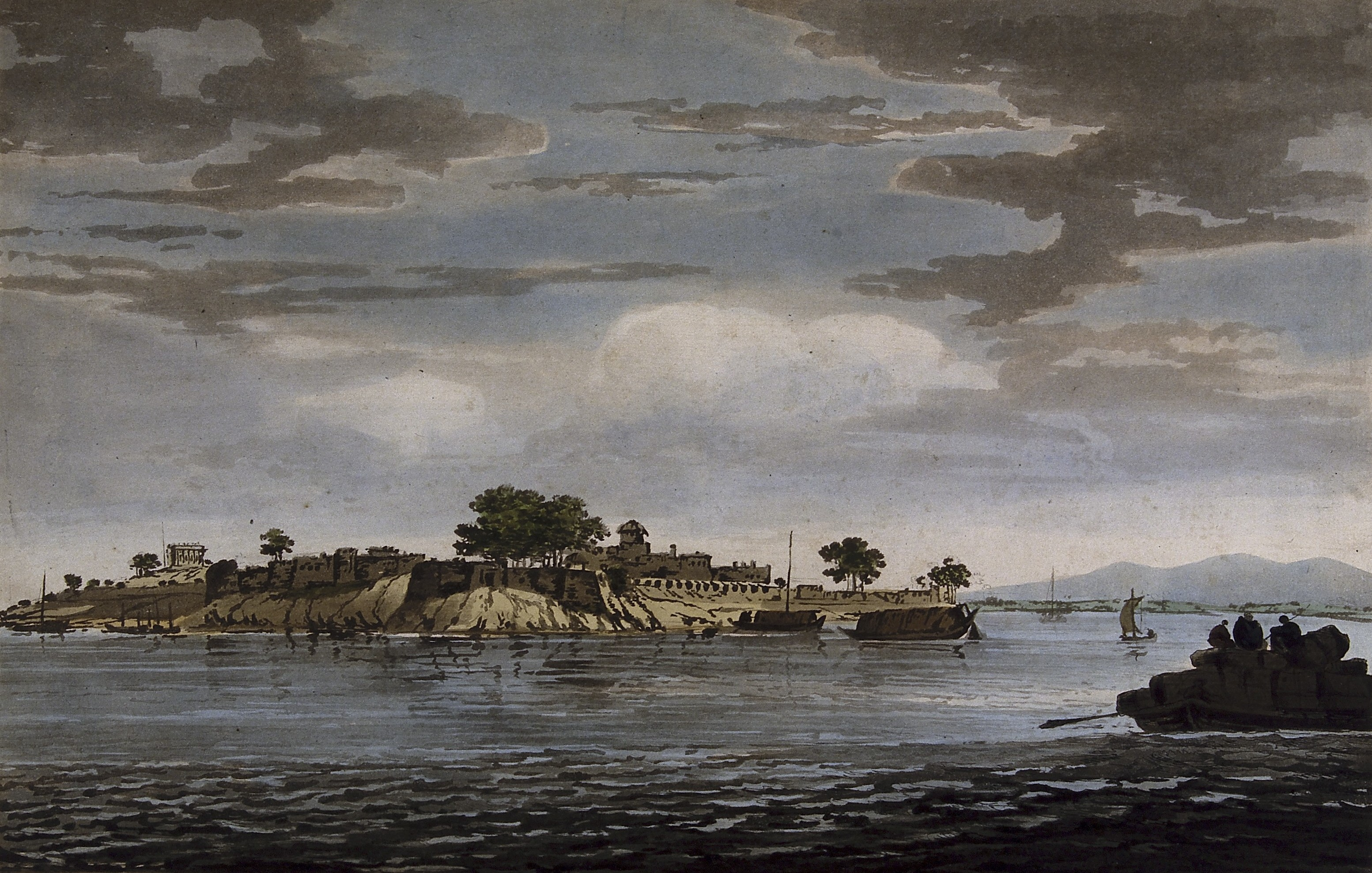 Fort at Monghyr on the river Ganges, India. Coloured etching by William Hodges, 1787. Iconographic Collections Keywords: William Hodges